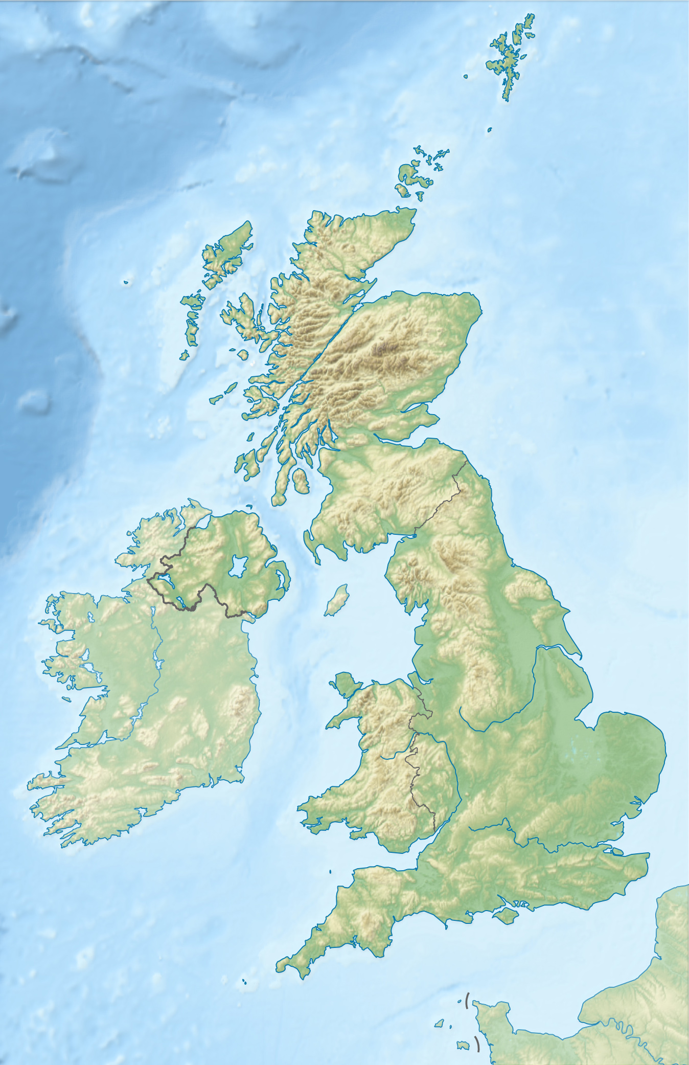 Location map of the United Kingdom Equirectangular projection, N/S stretching 170 %. Geographic limits of the map: N: 61.0° N S: 49.0° N W: 11.0° W E: 2.2° E